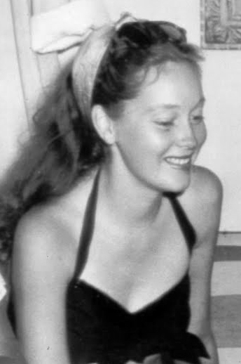 Photograph of a celebration of Rita Hayworth's 28th birthday, on board the Zaca, during the filming of The Lady from Shanghai Newspaper caption reads as follows: RITA HAYWORTH HAS BIRTHDAY Aboard Errol Flynn's yacht, Zaca, anchored off Acapulco, Mexico, Rita Hayworth, film actress, celebrated her birthday. Left to right: Errol Flynn, his wife Nora [Eddington], Rita and her husband Orson Wells [sic]. Rita and Orson are making a picture near Acapulco. Hayworth's birthdate was October 17, 1918.